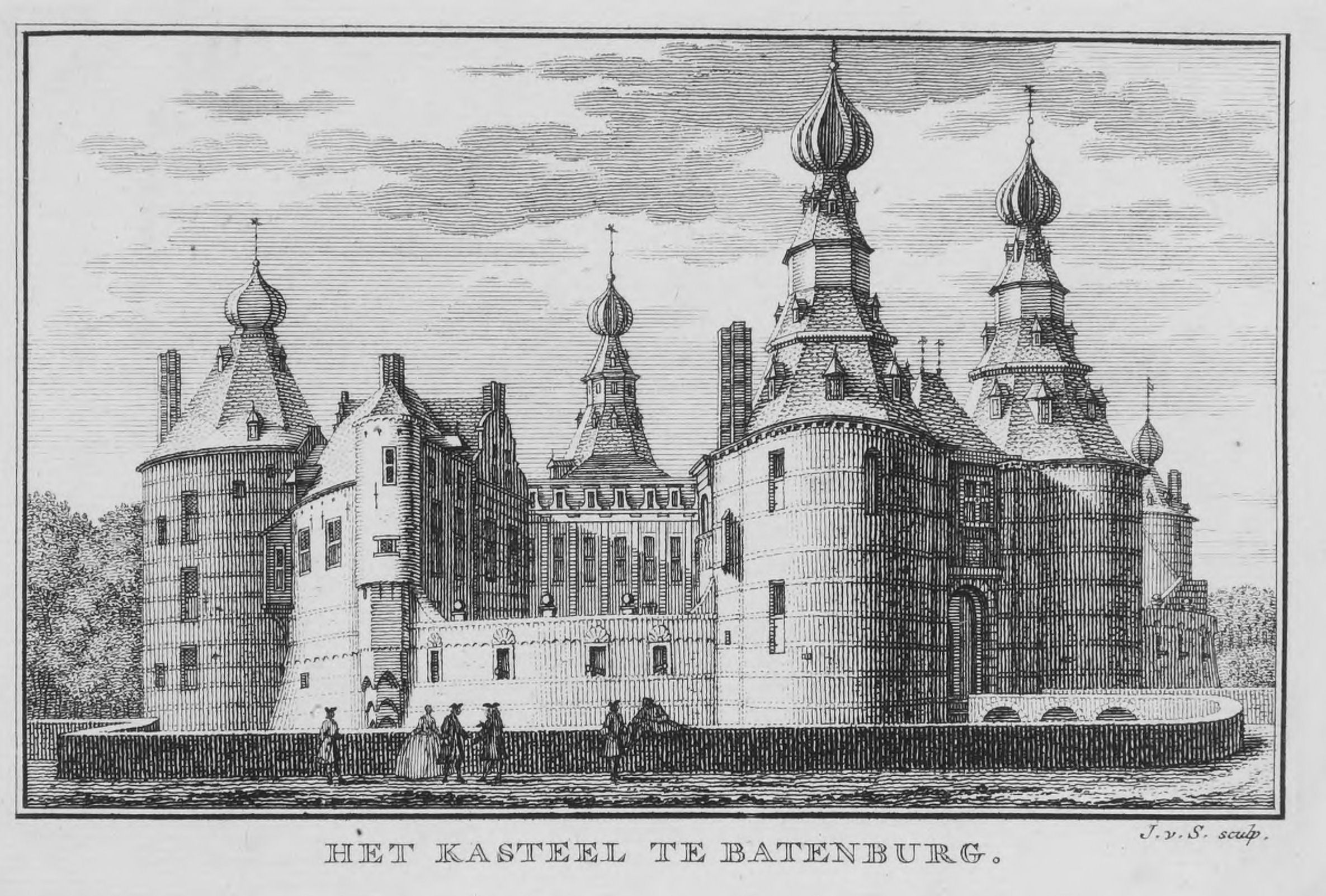 Castle Batenburg before destruction by the French 1794.